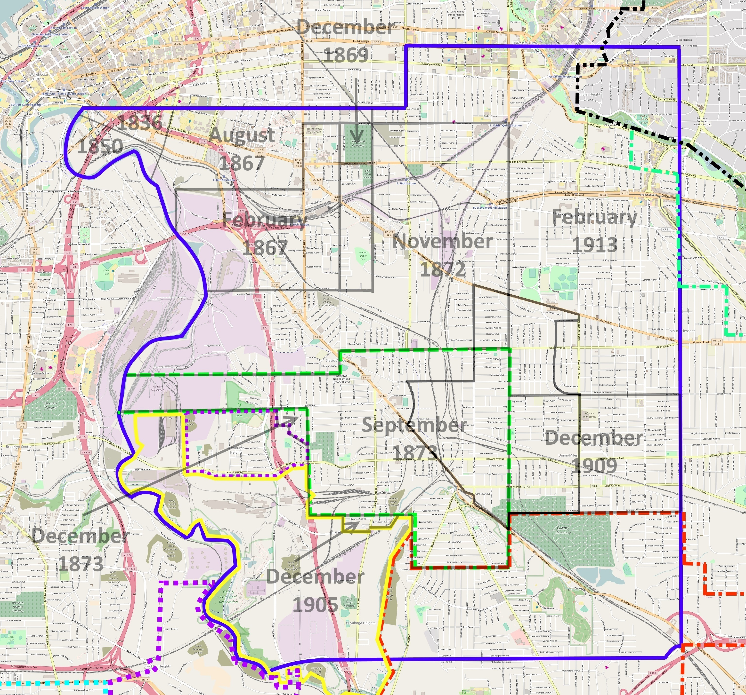 Map of the original 1814 Newburg Township, with the Union-Miles Park neighborhood in solid black. Showing annexations by the city of Cleveland, and incorporations by Newburgh Heights, Cuyahoga Heights, Cleveland Heights, Shaker Heights, and Garfield Heights. Map based on information contained in Orth, Samuel P. (1910). A History of Cleveland, Ohio. Volume 1. Chicago: S.J. Clarke Publishing, page 46 overleaf; Chapman, Edmund H. (1981). Cleveland: Village to Metropolis. Cleveland: Western Reserve Historical Society. ISBN 0911704299. pages 20-21; Vail, H.L.; Snyder, L.M. (1890). Ordinances of the City of Cleveland. Revised and Consolidated. Cleveland: Clark-Britton Printing Co. pages 455-465.